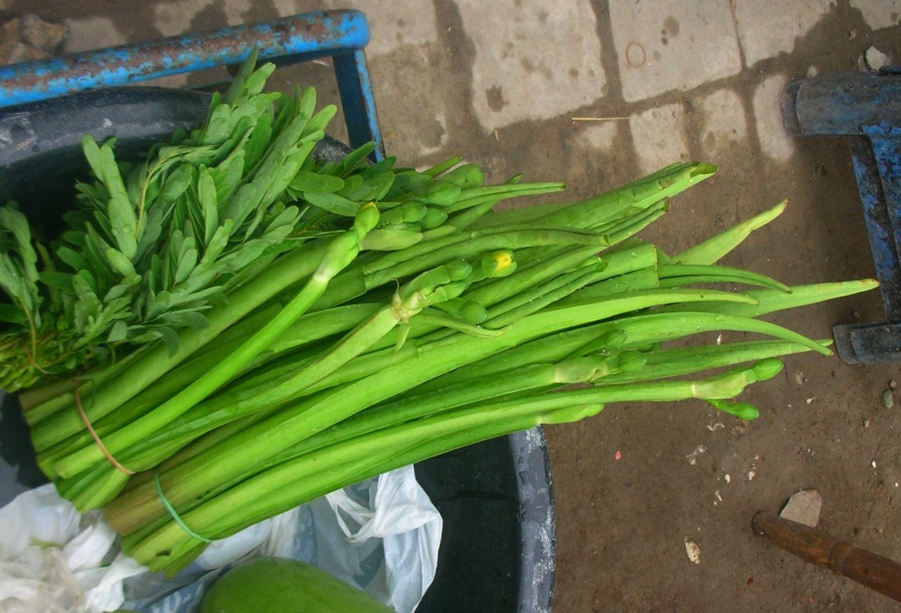 Limnocharis flava leaves at a market in Nonthaburi district. (Thai name: Tarapat rusi; Thai script: ตาลปัตรฤๅษี)